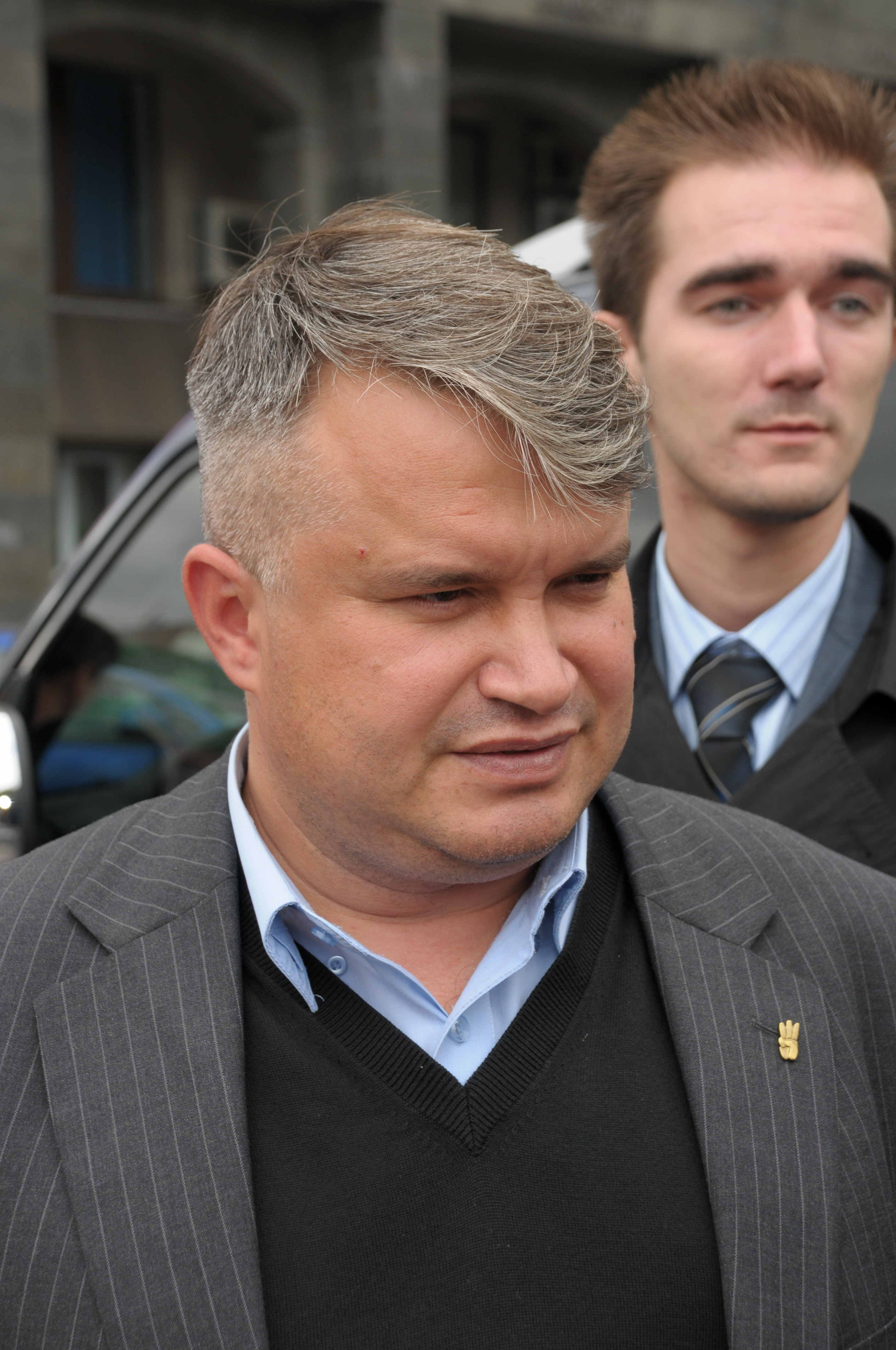 Andriy Mokhnyk, Ukrainian politician, member of the Ukrainian Verkhovna Rada